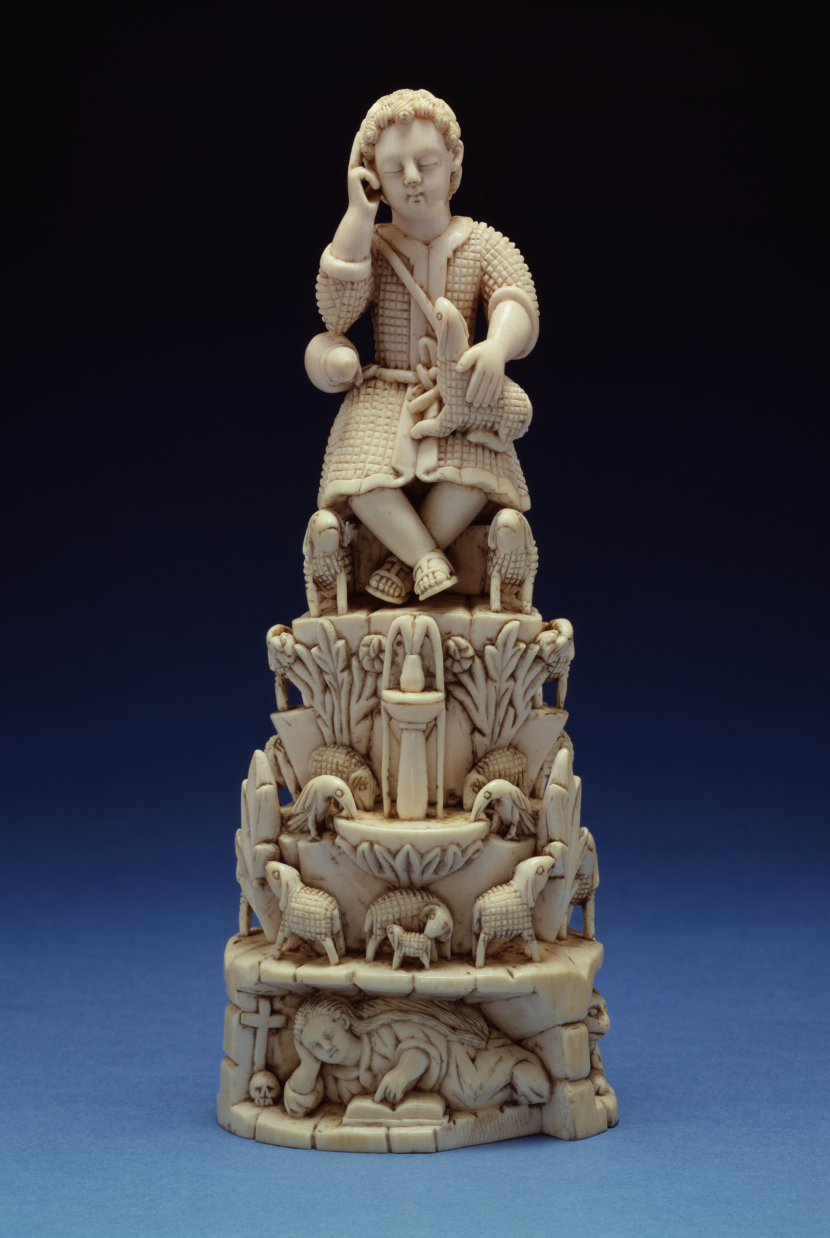 This popular compositional type of carved ivory statuette depicting the Good Shepherd was apparently invented in Goa (west coast of India), a Jesuit training center for missionaries. At the bottom, Christ's follower Mary Magdalene reads scriptures in a mountain cave, where, according to legend, she retired in later life. Above is a fountain of life (suggestive of baptism) with doves and lambs, and at the top is the meditative figure of the Christ Child sitting with a lamb.